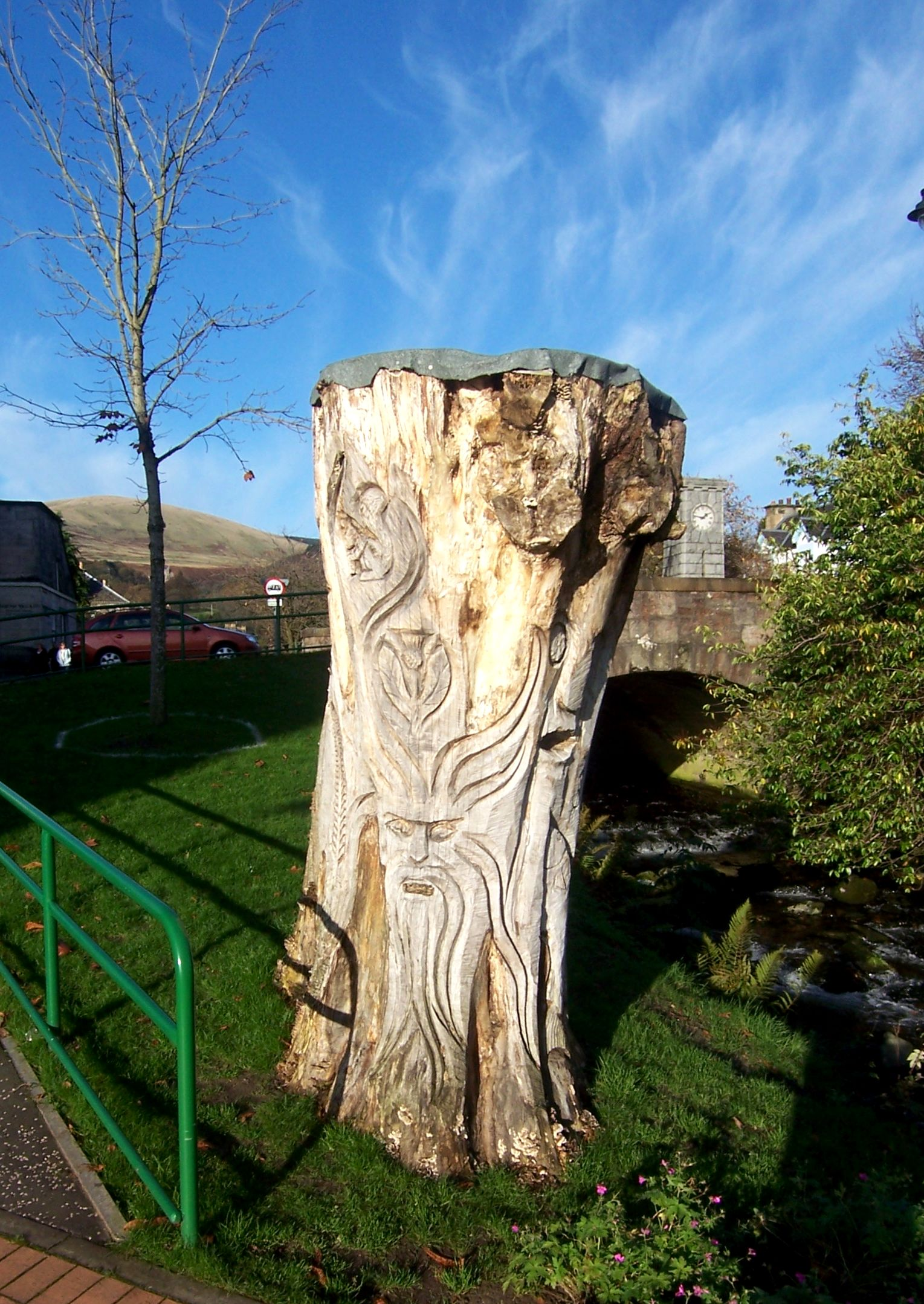 A carved tree trunk in Dollar, Clackmannanshire, Scotland, UK.